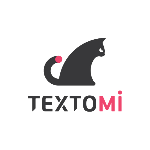 TEXTOMi logo